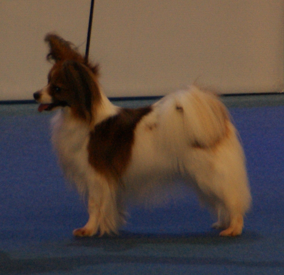 Red-and-white Papillon female.